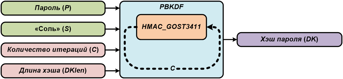 Crypto hash png